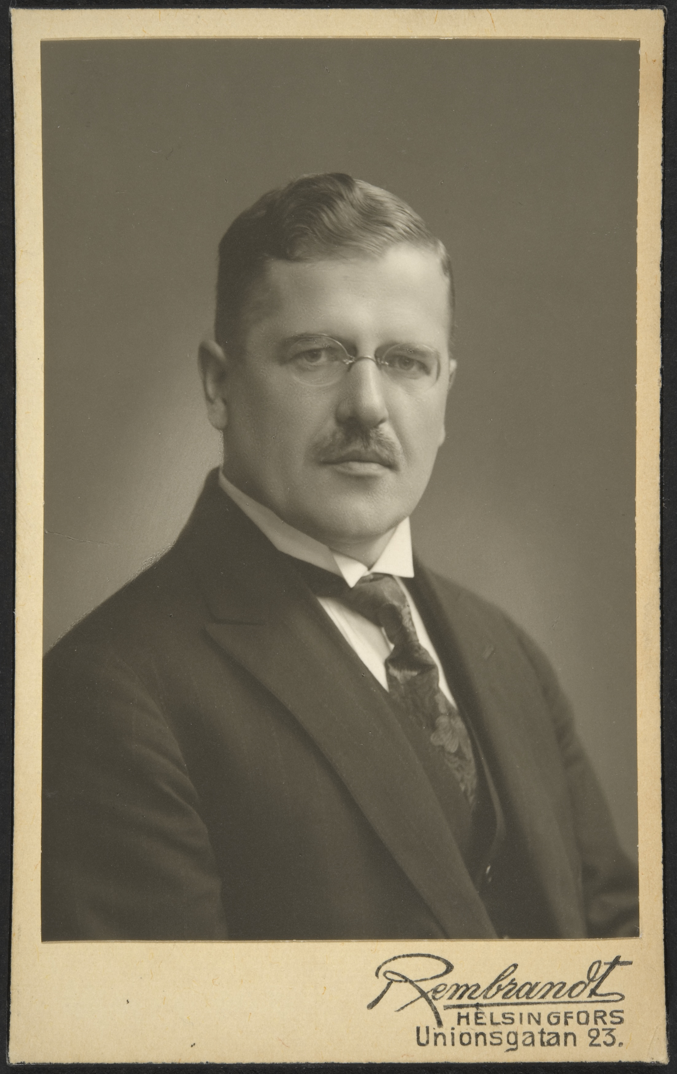 Photograph of the Finnish chemist Niilo J. Toivonen (1888–1961).